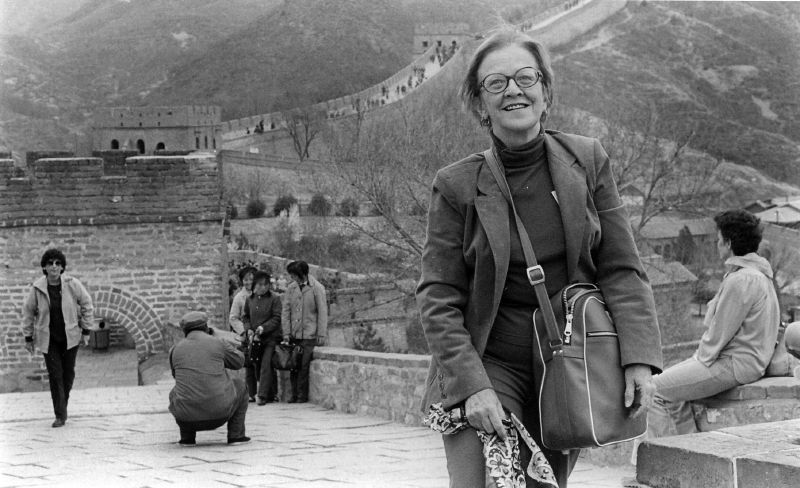 Mavis Hiltunen Biesanz at the Great Wall of China